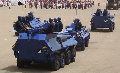 Mowag Piranha I 8x8, MOWAG Roland and Mowag Piranha I 4x4 Armoured personnel carriers of Ghana Police Service, on the street in Ghana.